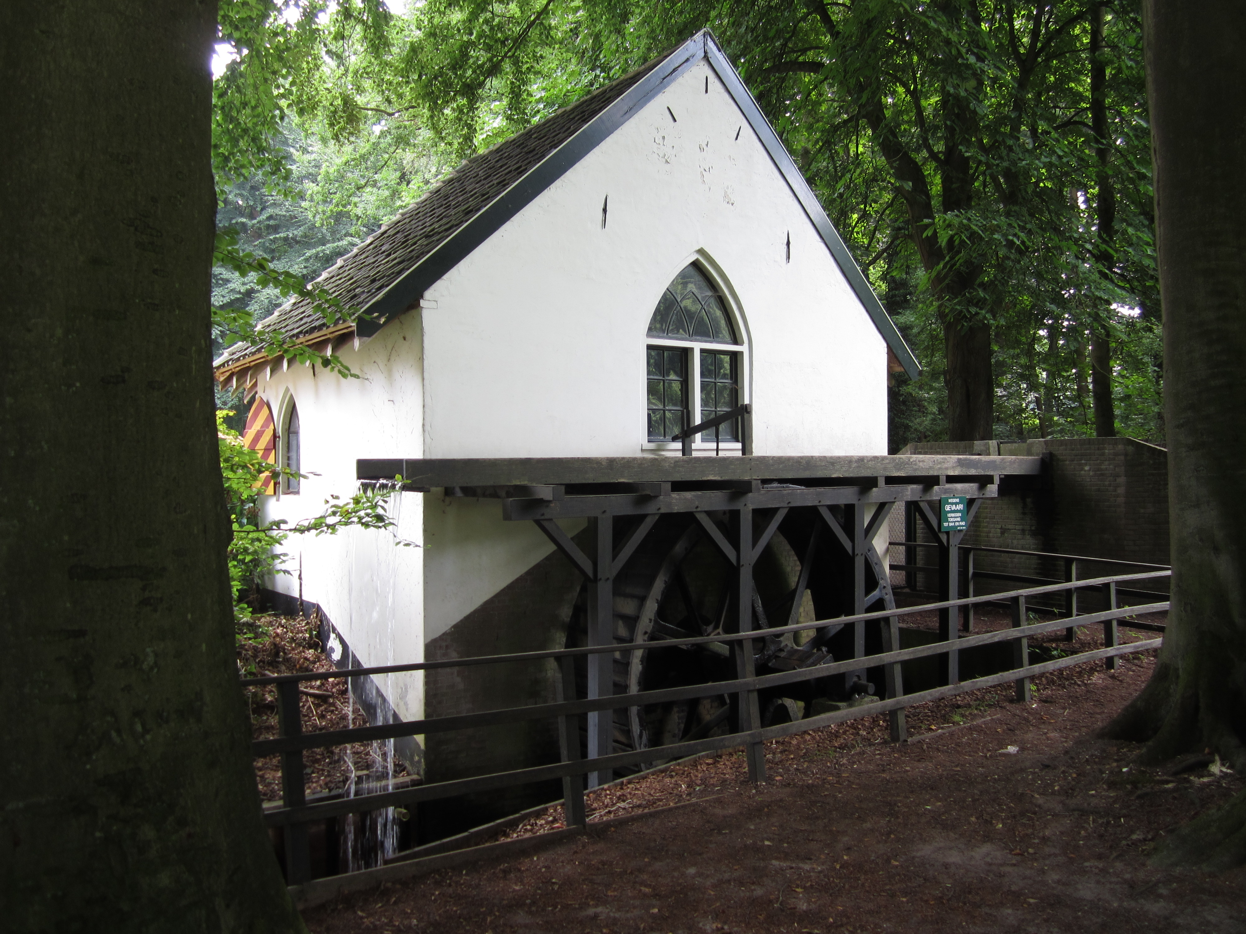 Watermolen